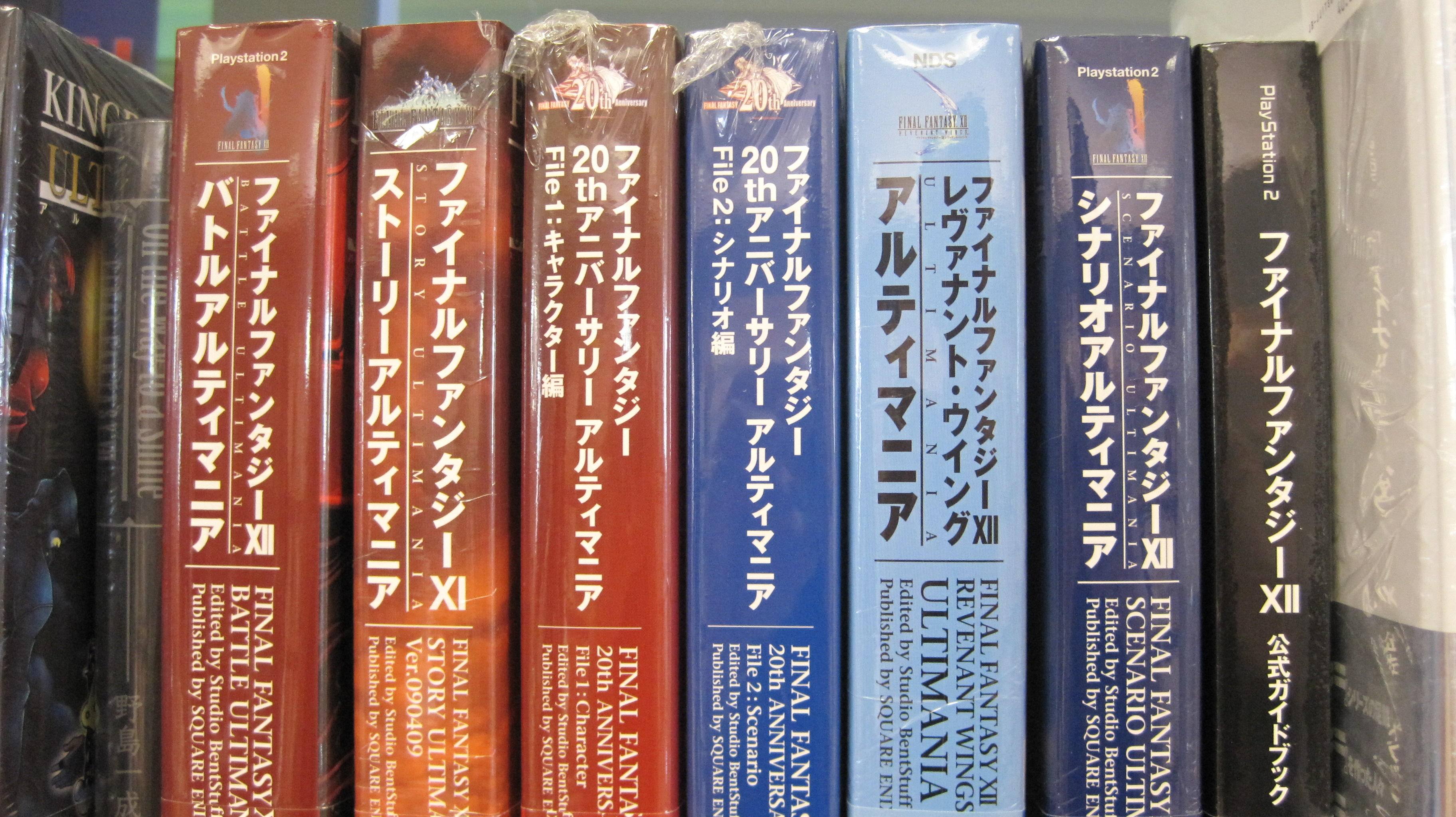 Various Final Fantasy Ultimania guides at Books Kinokuniya in San Francisco, California. From left to right: Final Fantasy XII Battle Ultimania, Final Fantasy XI Story Ultimania, Final Fantasy 20th Anniversary File 1: Character, Final Fantasy 20th Anniversary File 2: Scenario, Final Fantasy XII Revenant Wings Ultimania, Final Fantasy XII Scenario Ultimania, and another book for Final Fantasy XII.